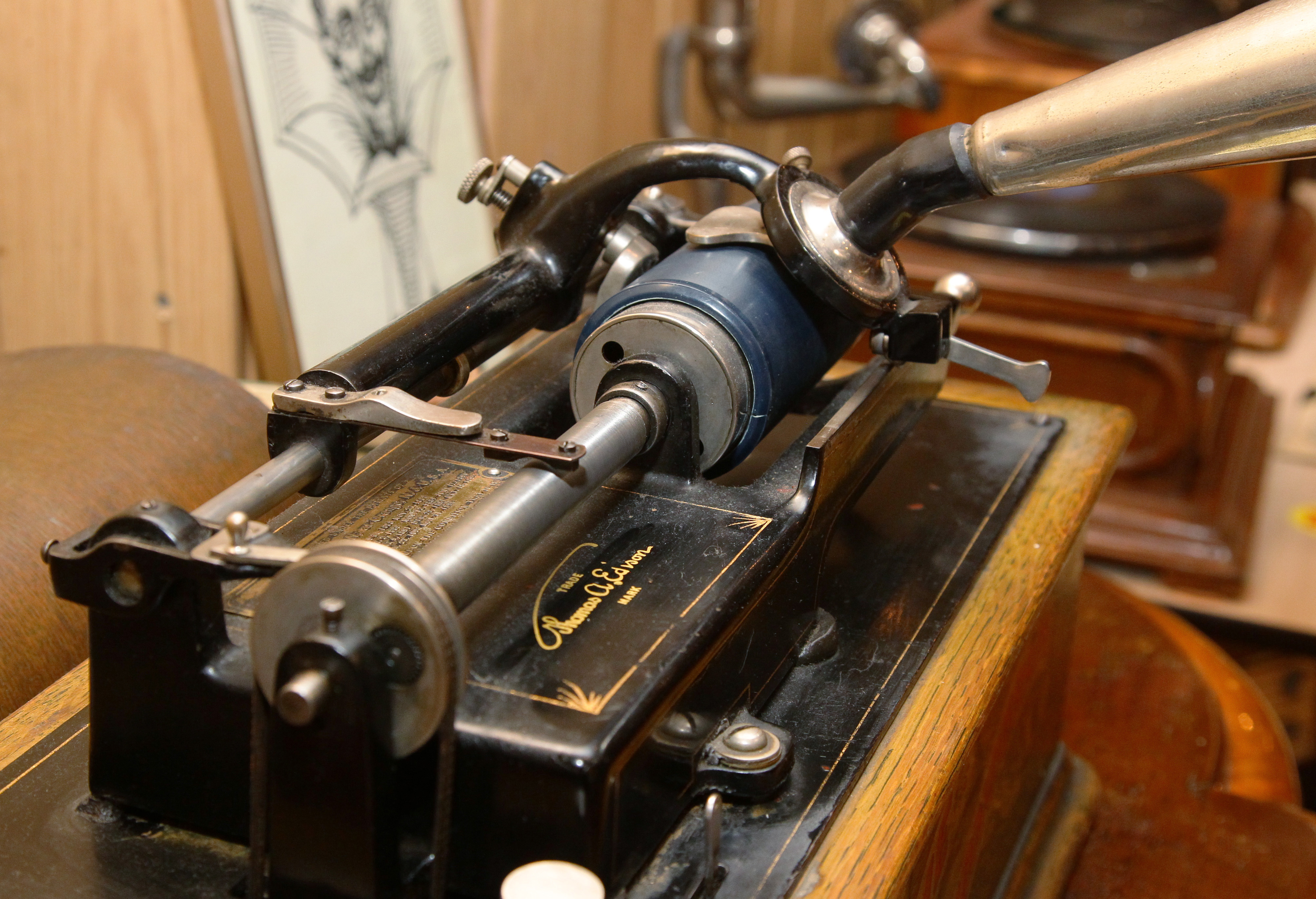 Edison Home Phonograph from collection of Technical Museum in Nizhny Novgorod.